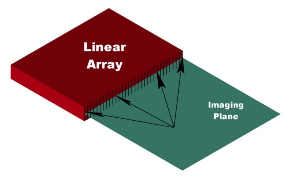 Illustration of a linear transducer array